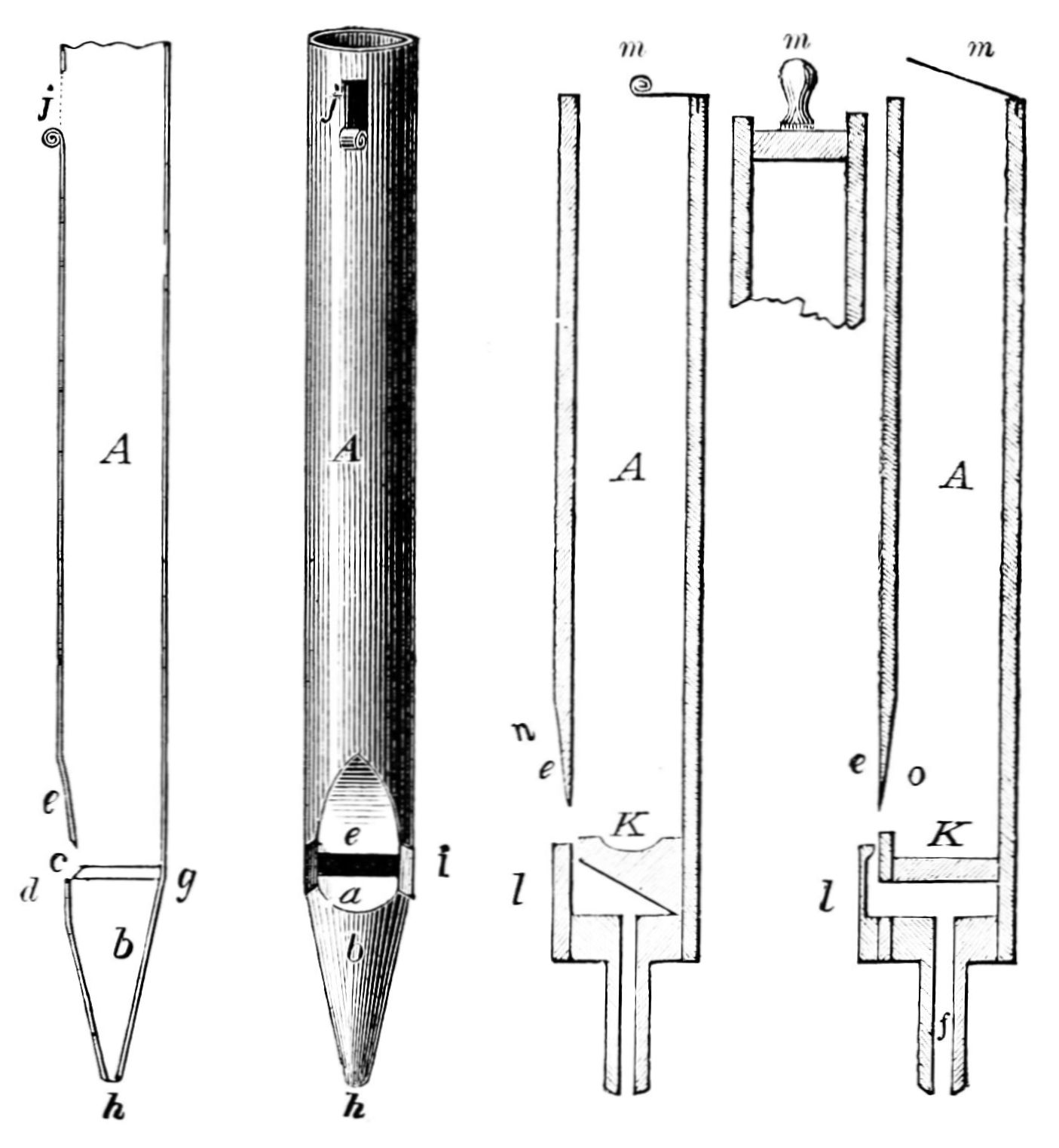 Flue stop organ pipes “Fig. 10. Fig. 11. Fig. 12. Fig. 13. Figs. 10 and 11.—Flue-stop Pipes, showing general features of construction: body of pipe {A), foot (b), mouth (c), lower lip {d), upper lip (e), air passage (f), languette which divides the body of the pipe from the foot (g), wind entrance (h), ears for steadying the wind (i), and tuner (j). Figs. 12 and 13 represent section of a wood pipe of the same order: the difference is shown in block {K), cap (l), tuner (m), exterior bevel (n), inverted mouth (o).”